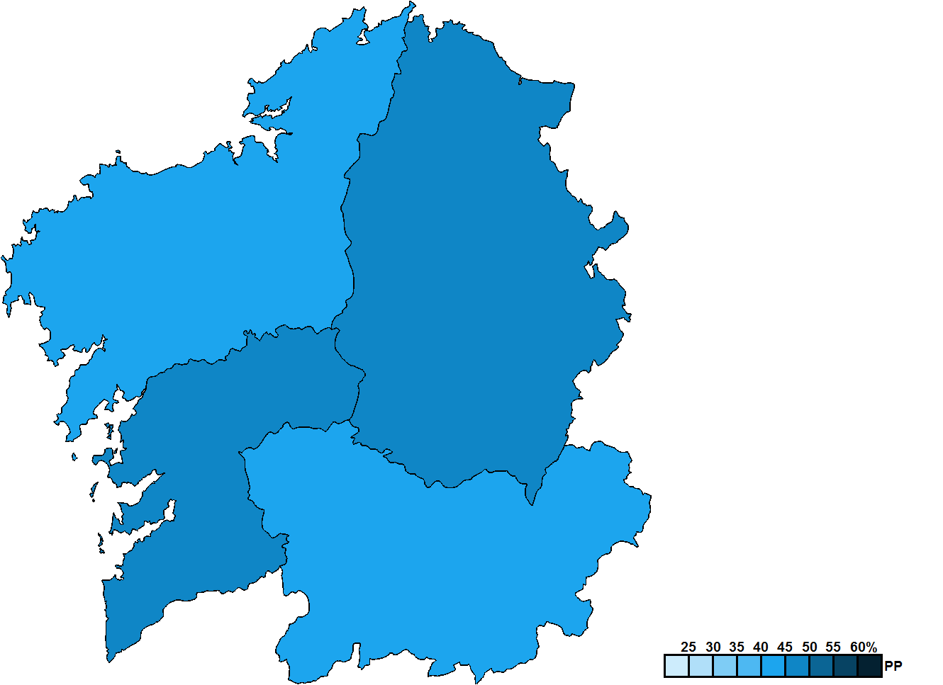 Provincial results for the 1989 Galician regional election.